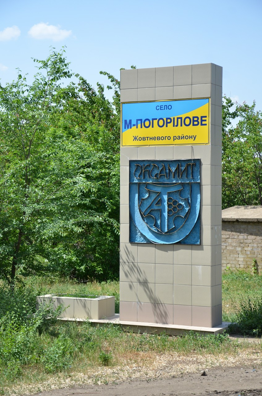 Миколаївська весна у Вікіпедії